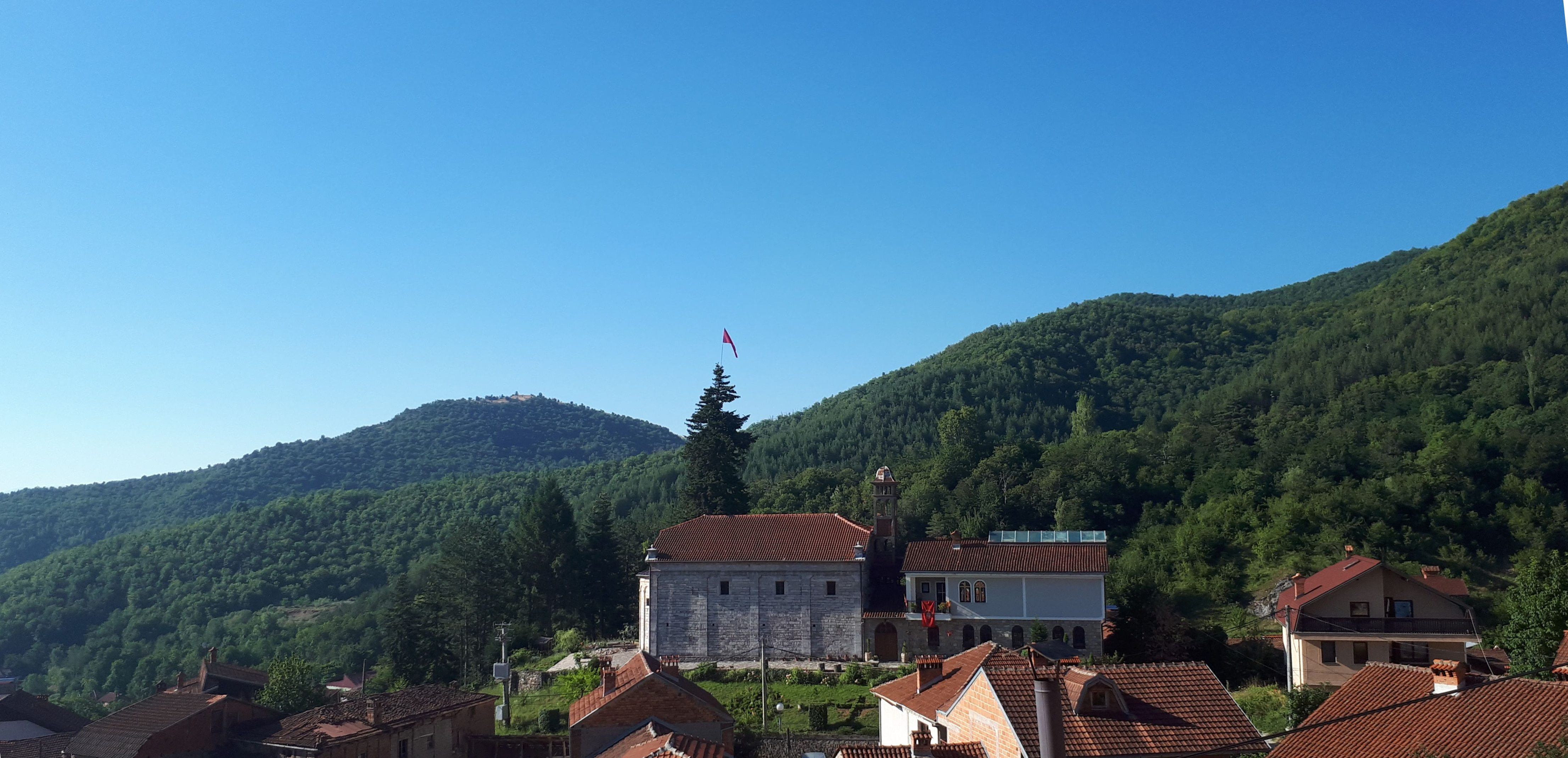 St. Nicholas Church with the surrounding area in the village of Vevčani